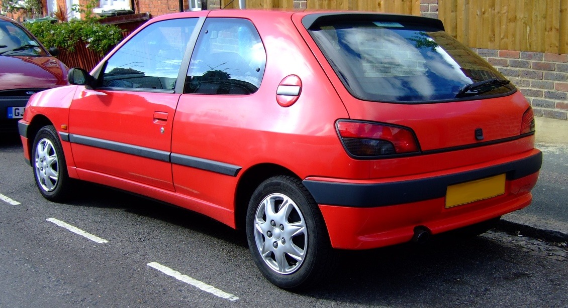 3 door Peugeot 306 1.6XS, UK 1996 model. NB, wheel trims are non-standard